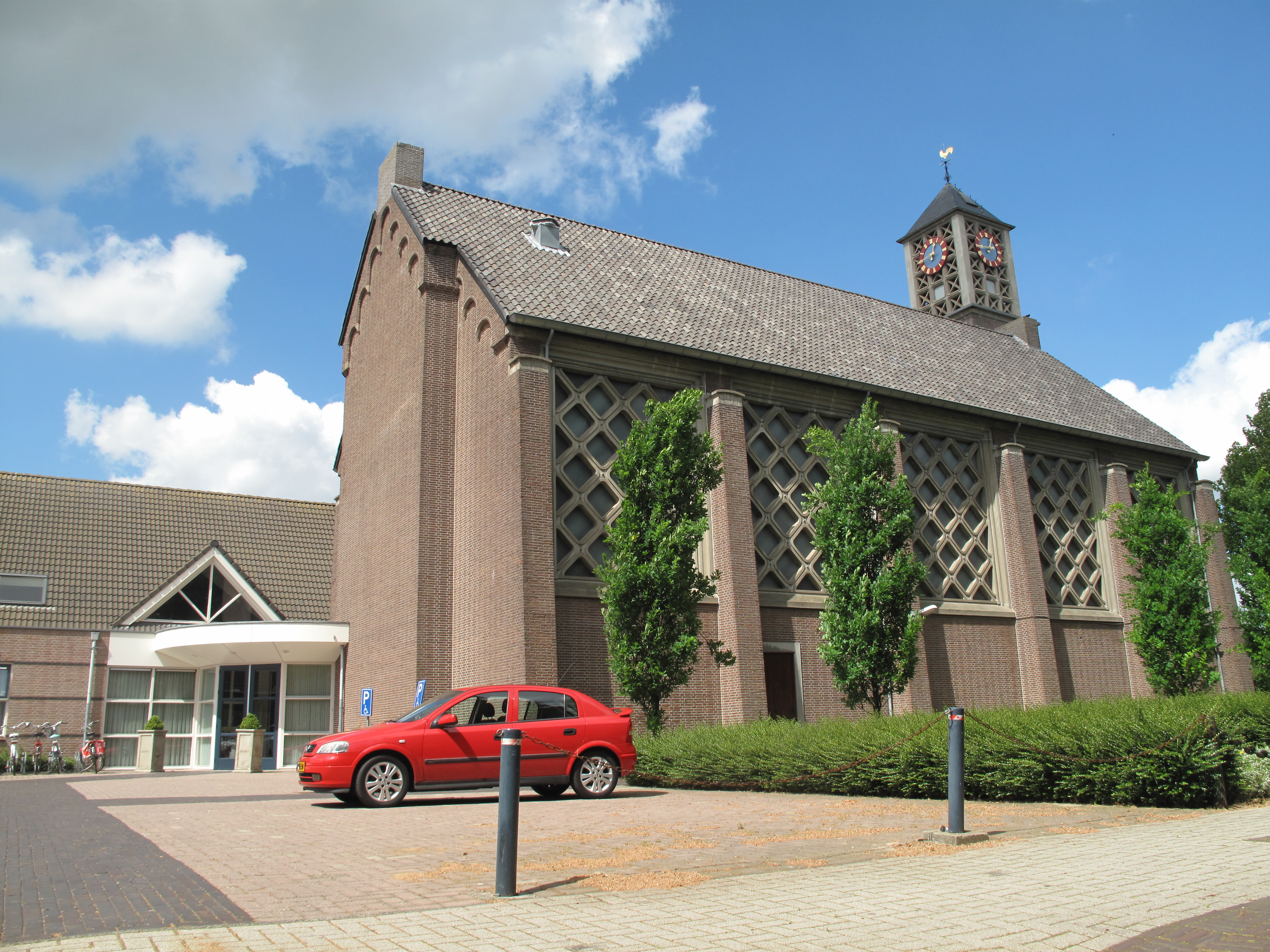 Ochten, reformed church